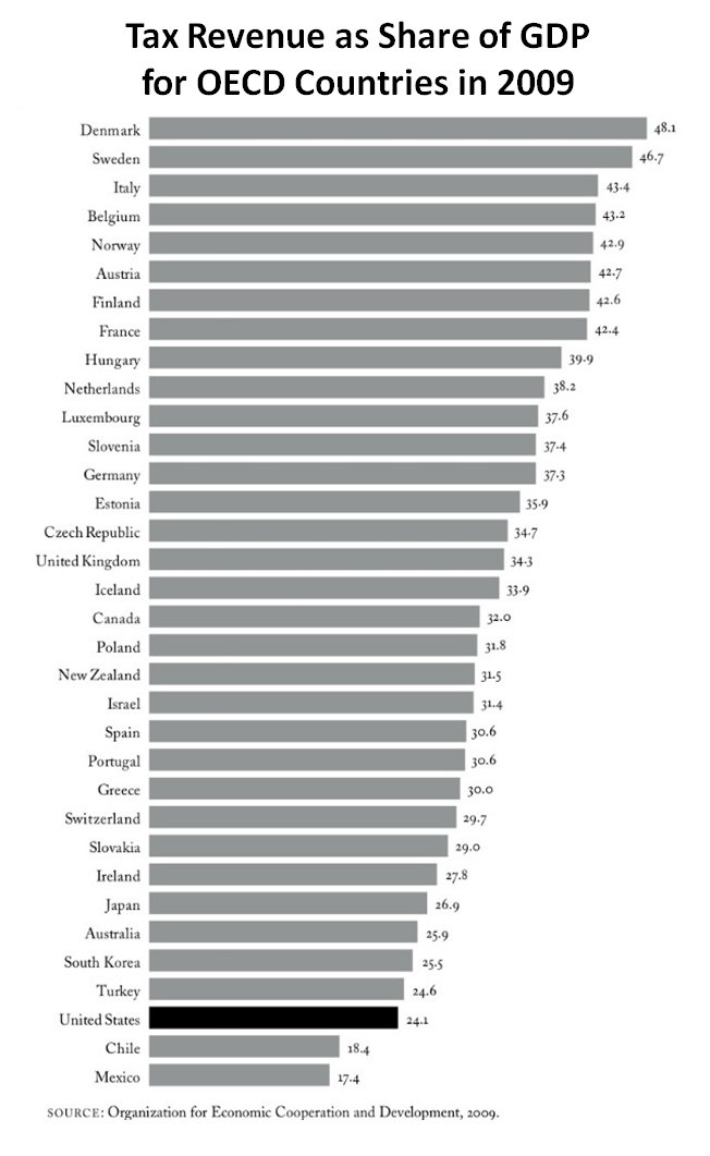 Tax revenue as share of GDP for OECD countries in 2009.